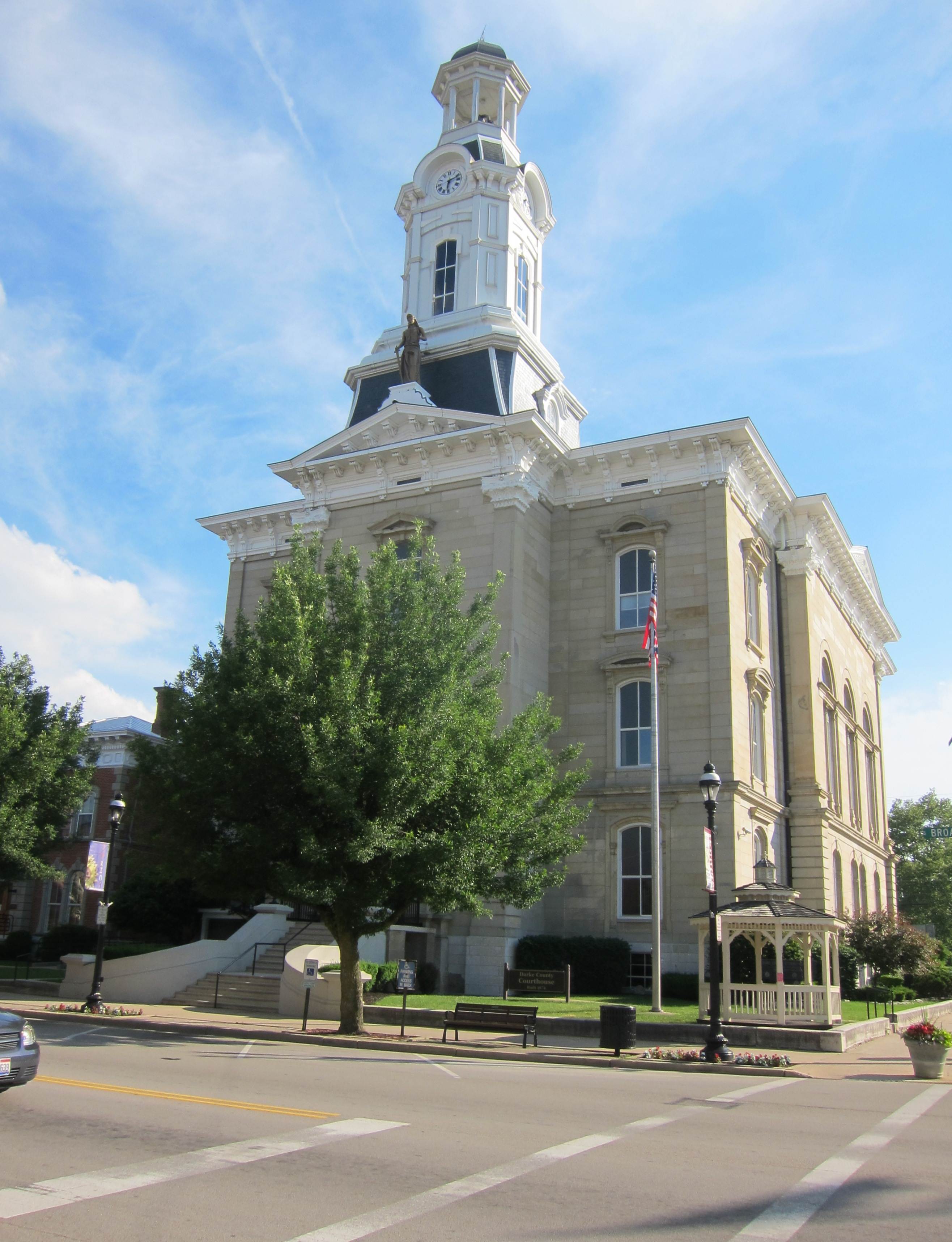 Darke County Court House in Greenville OH